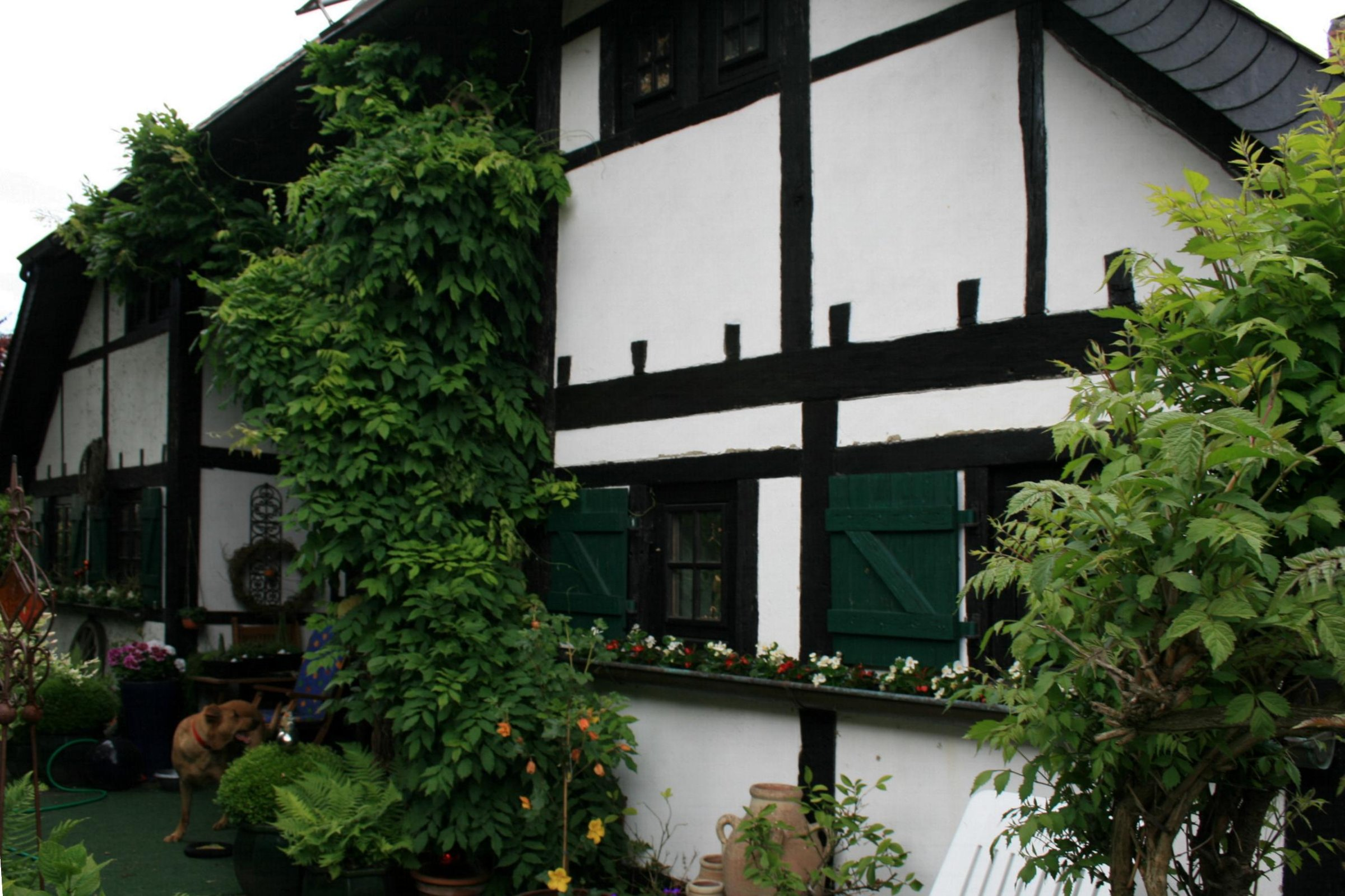 Cultural heritage monument No. N 007 in Mönchengladbach